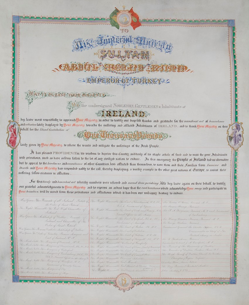 Letter sent by Ireland to Ottomon Empire during the famine "Great Hunger".